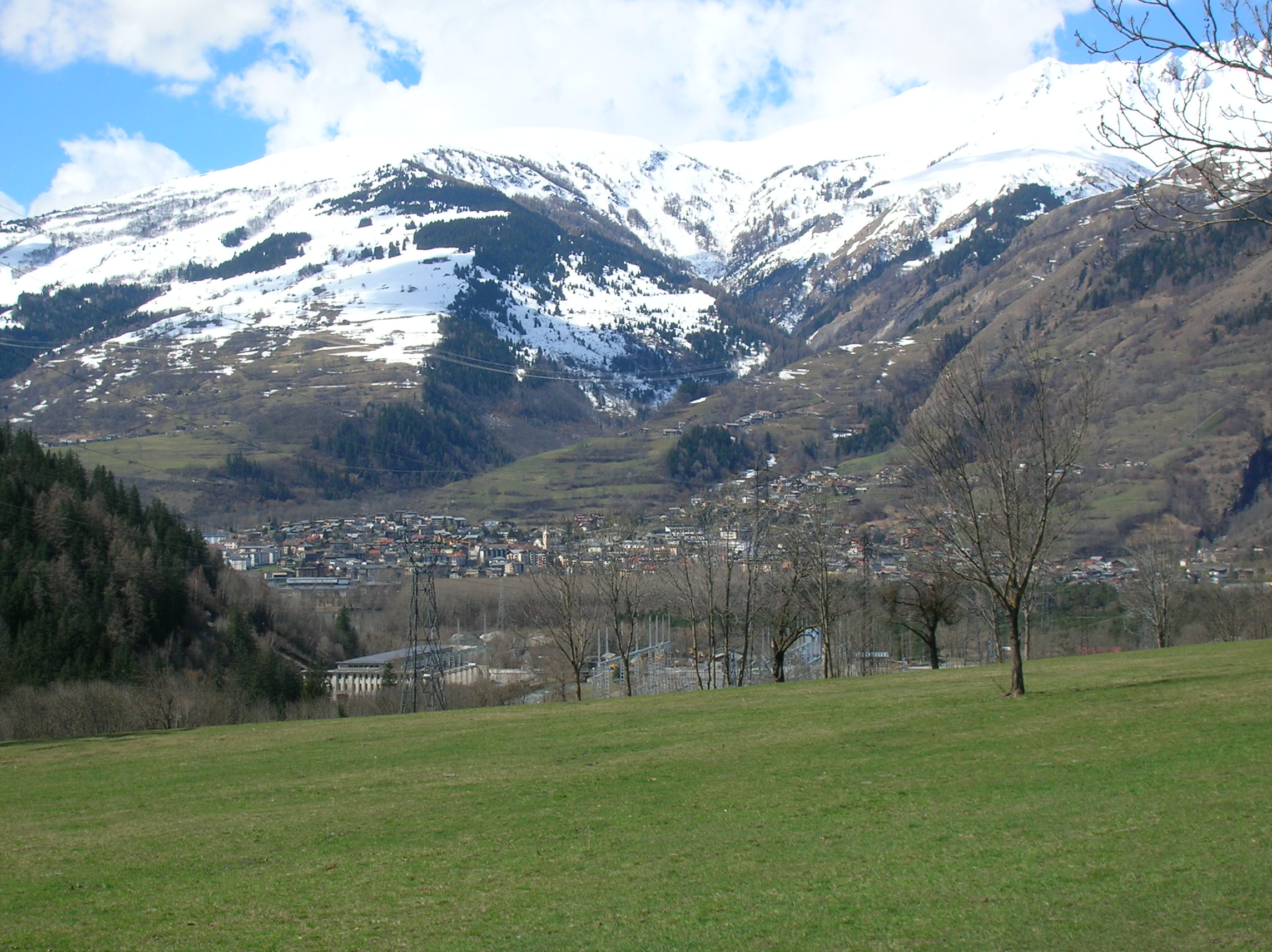 Bourg-St-Maurice in Savoie, Rhône-Alpes, France.